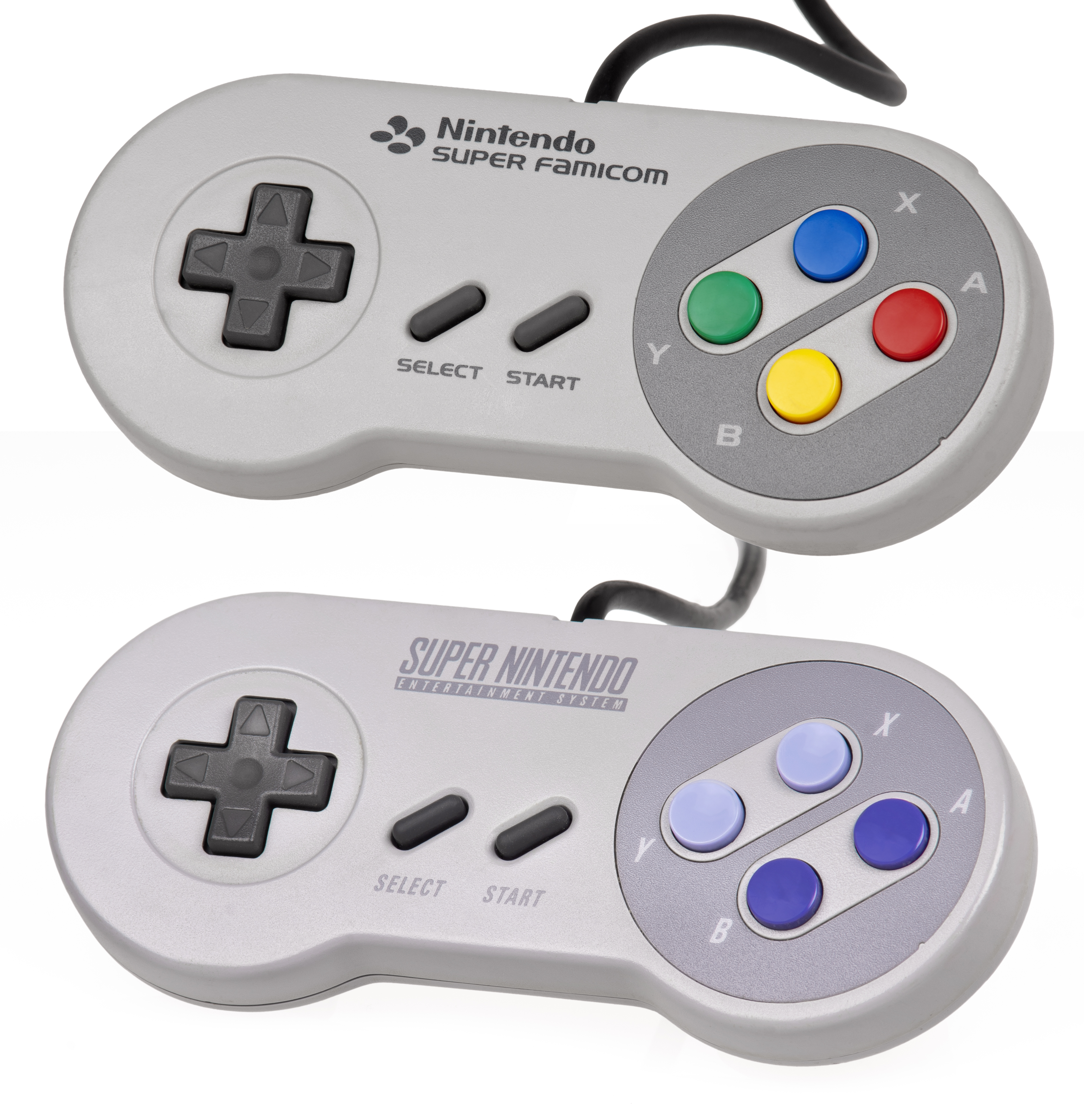 Original Super Famicom gamepad (at the top) and American Super NES gamepad (at the bottom). Models SHVC-005 and SNS-005 respectively.